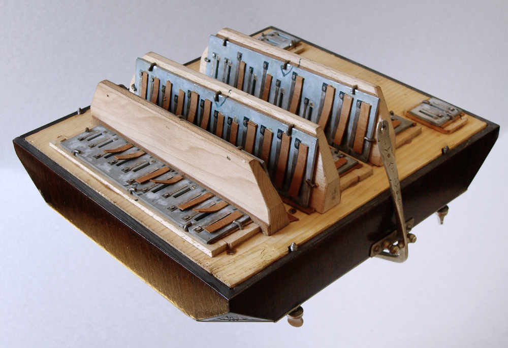 inside of a bandoneon, free reeds